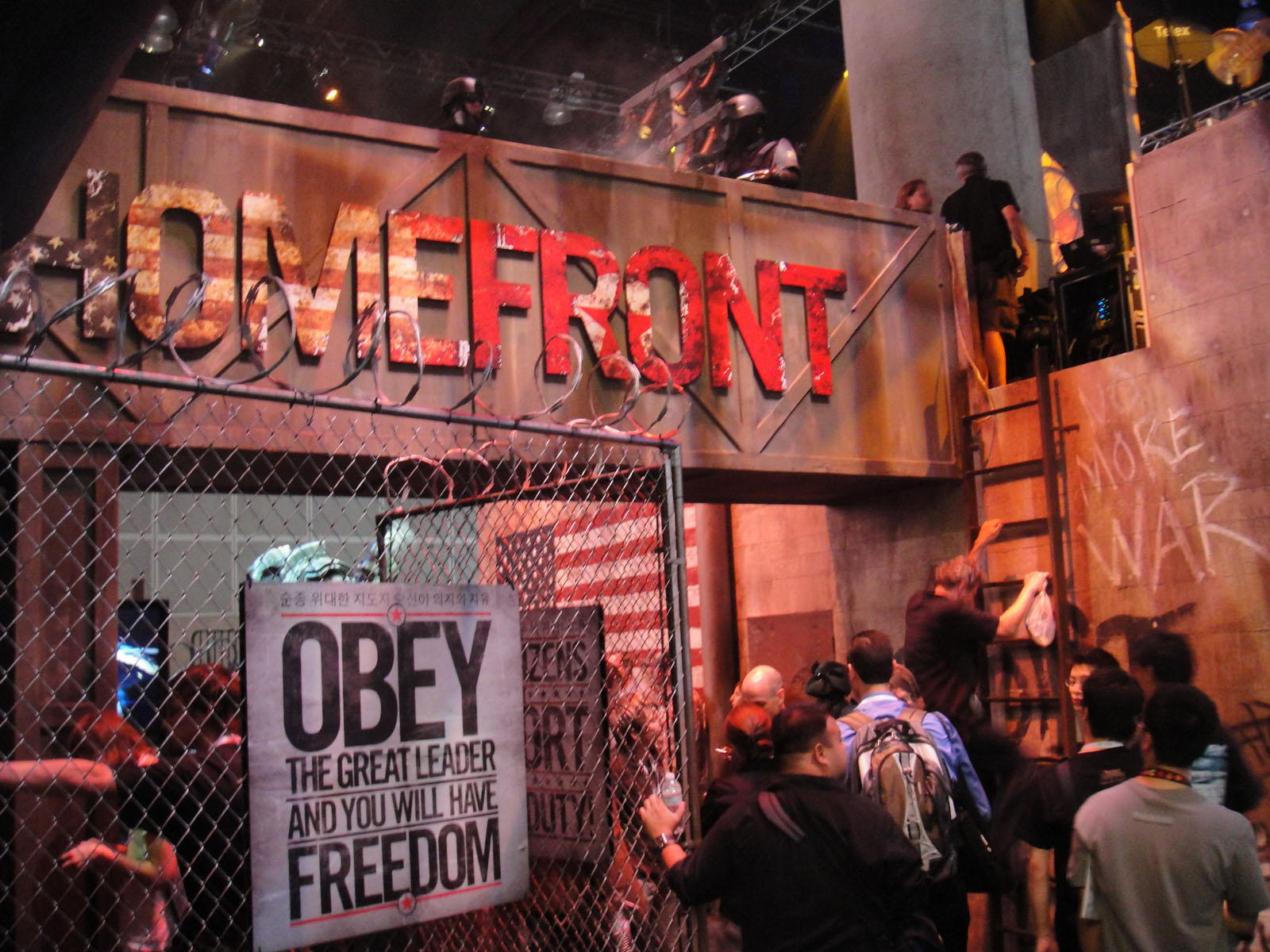 Taken on June 15, 2010 Dowtown Carrier Annex, Los Angeles, CA, US Sony DSC-T900